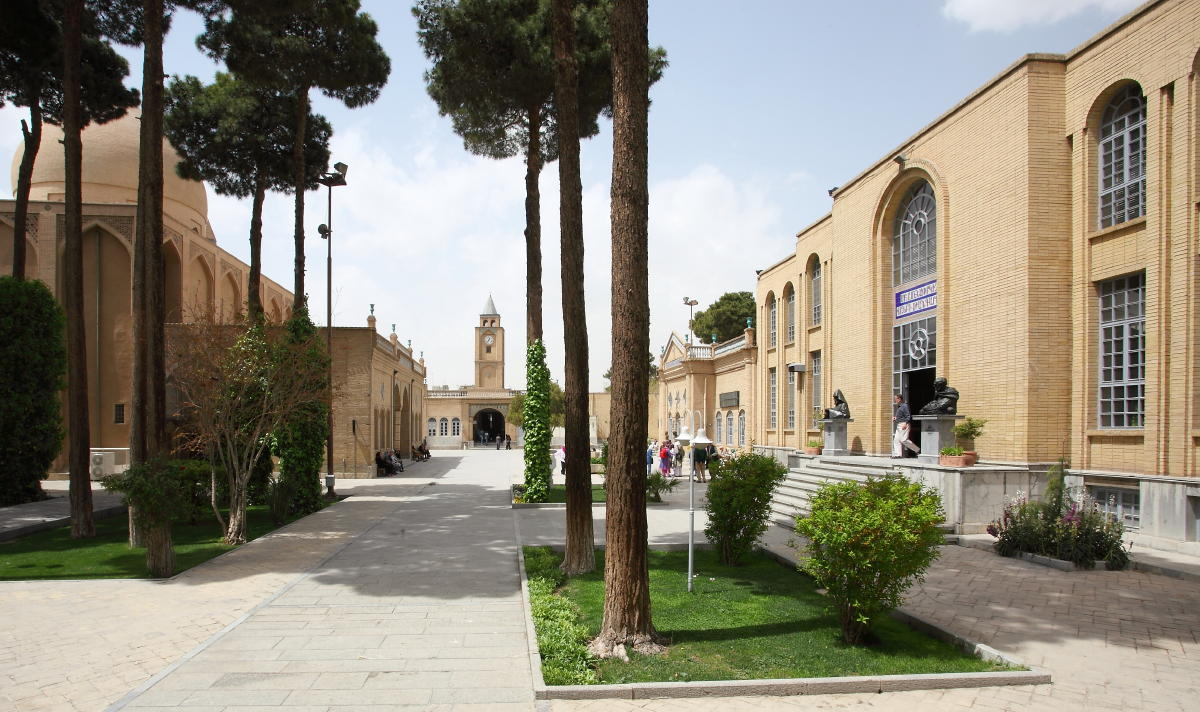 The courtyard of the 17th century Armenian church, Vank Cathedral in New Julfa, Isfahan, Iran. The museum is at the right.